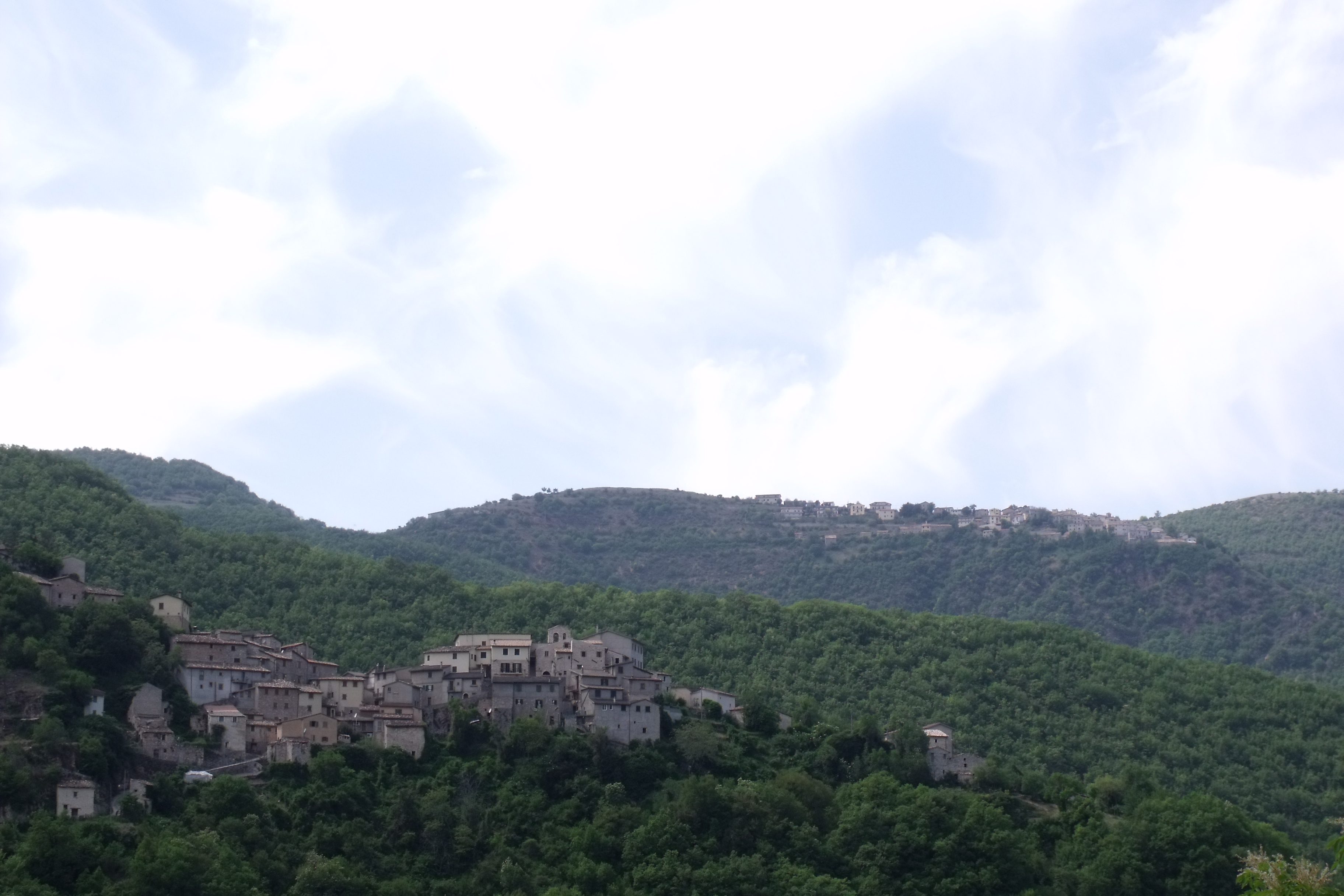 Panorama of Roccatamburo and Mucciafora, Comune of Poggiodomo, Province of Perugia, Umbria, Italy